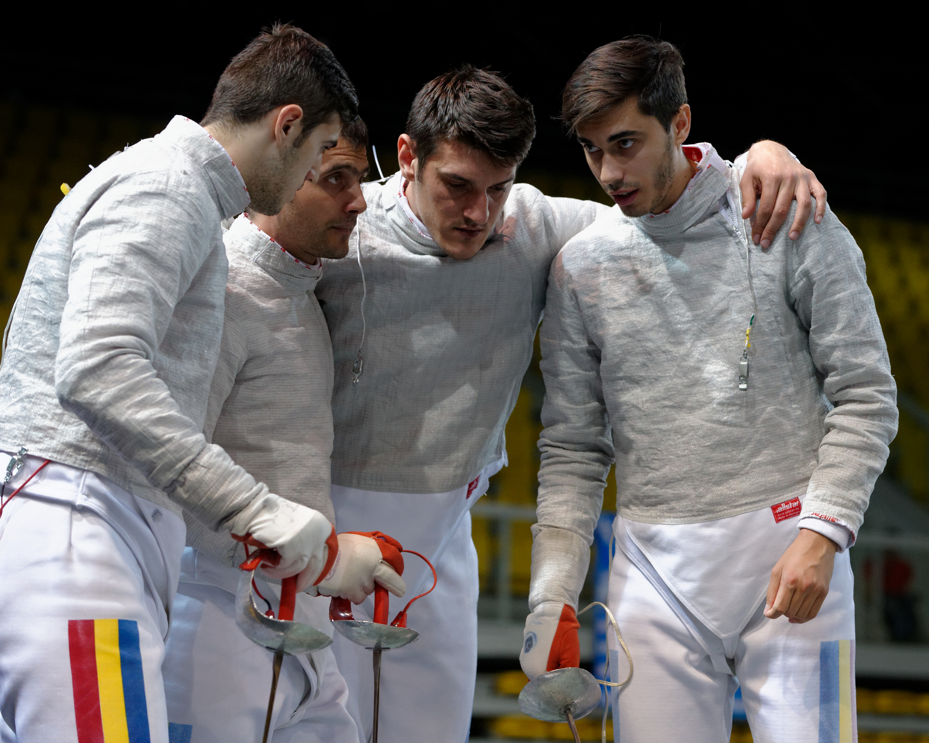 Romania (from left to right, Iulian Teodosiu, Tiberiu Dolniceanu, Alin Badea, and Ciprian Gălățanu) huddle before their quarter-finals match against Belarus in the men's team sabre event at the European Fencing Championships at Rhénus Sport in Strasbourg on 14 June 2014.